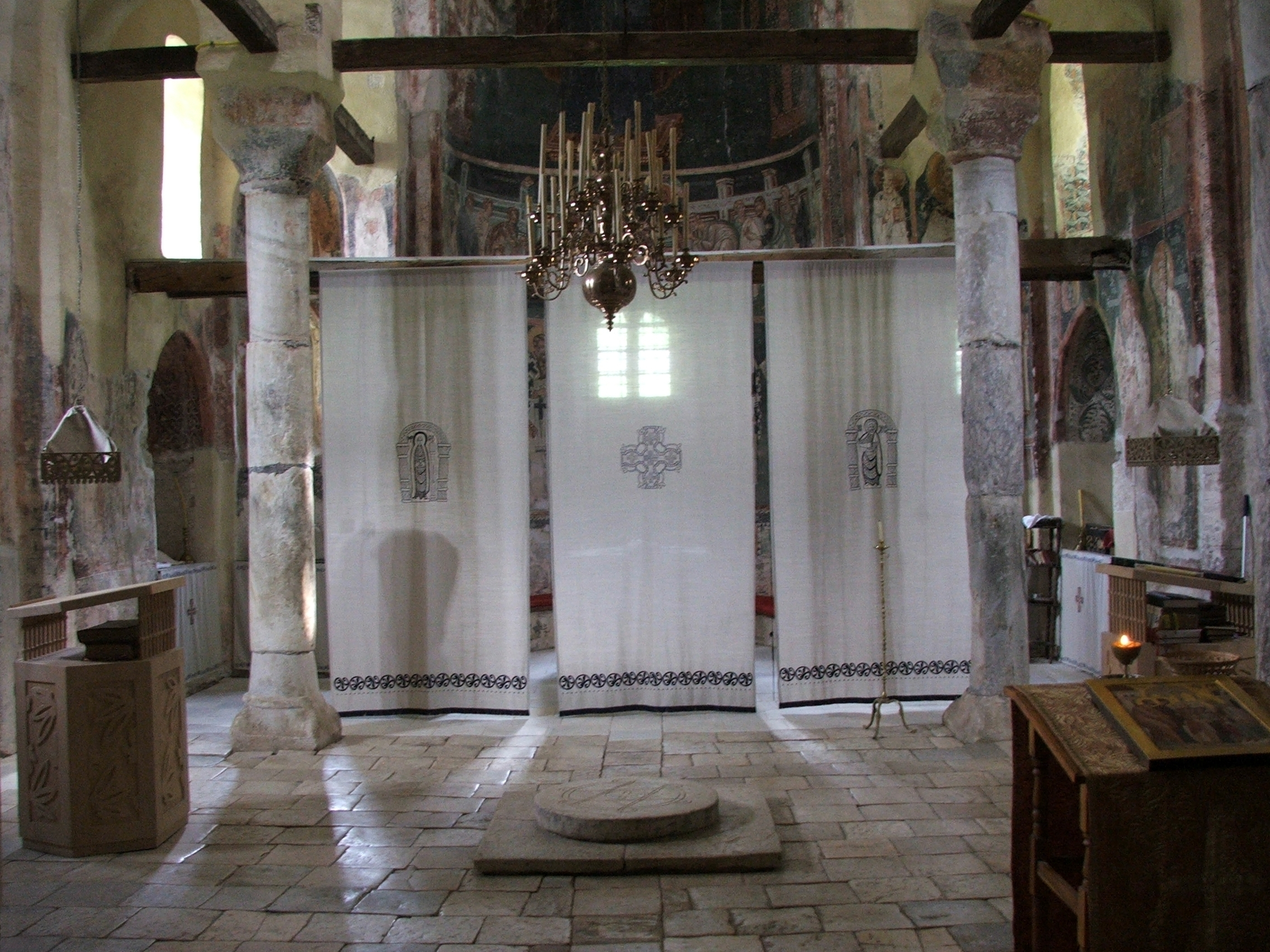 Nova Pavlica Monastery - Interior of the church Српски (ћирилица): Манастир Нова Павлица - Унутрашњост цркве посвећене Ваведењу Пресвете Богородице